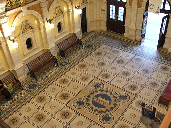 Foyer of Dunedin Railway Station, New Zealand